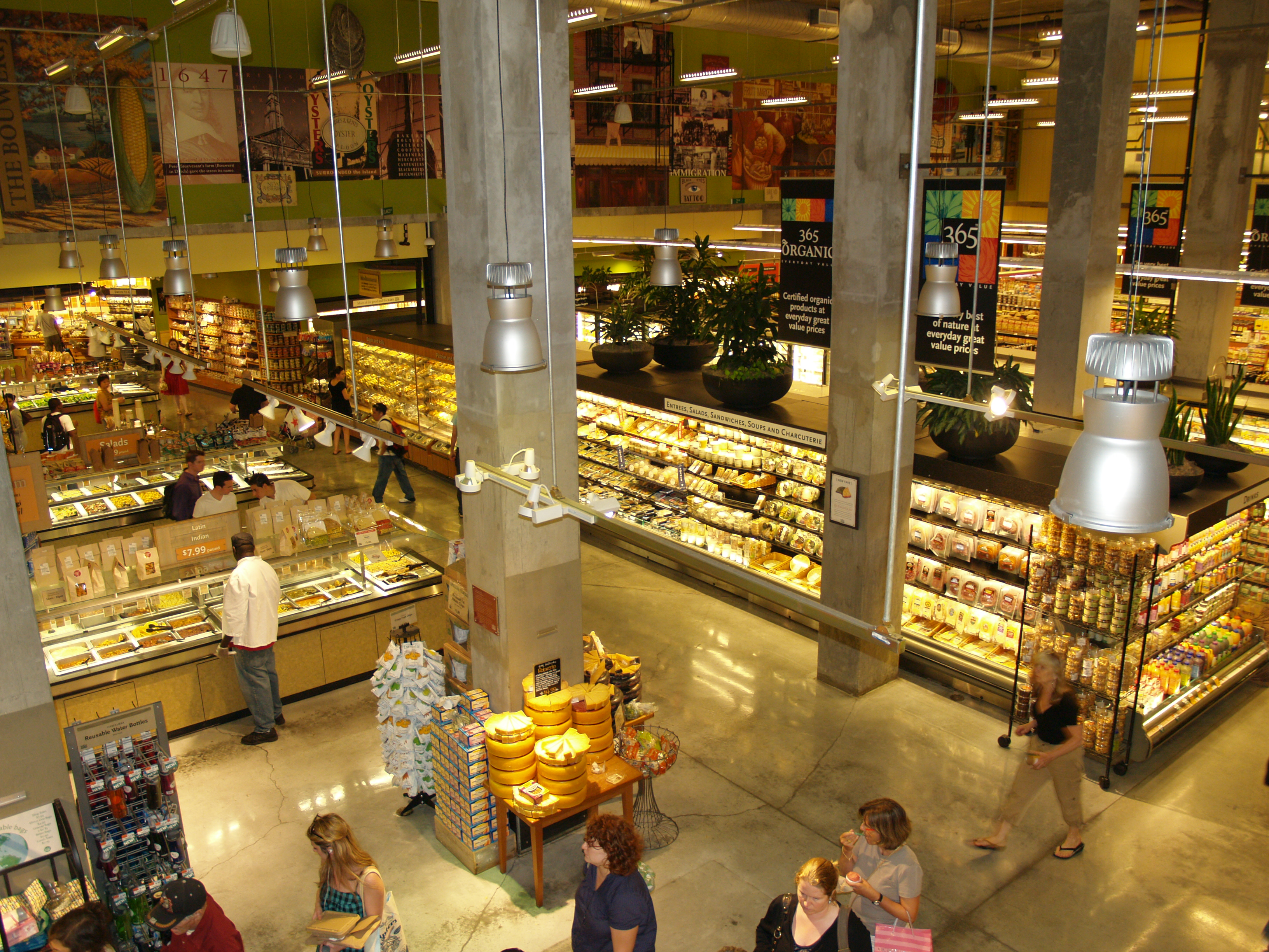 The interior of the largest Whole Foods in the United States, located on Houston Street in the East Village of New York City.